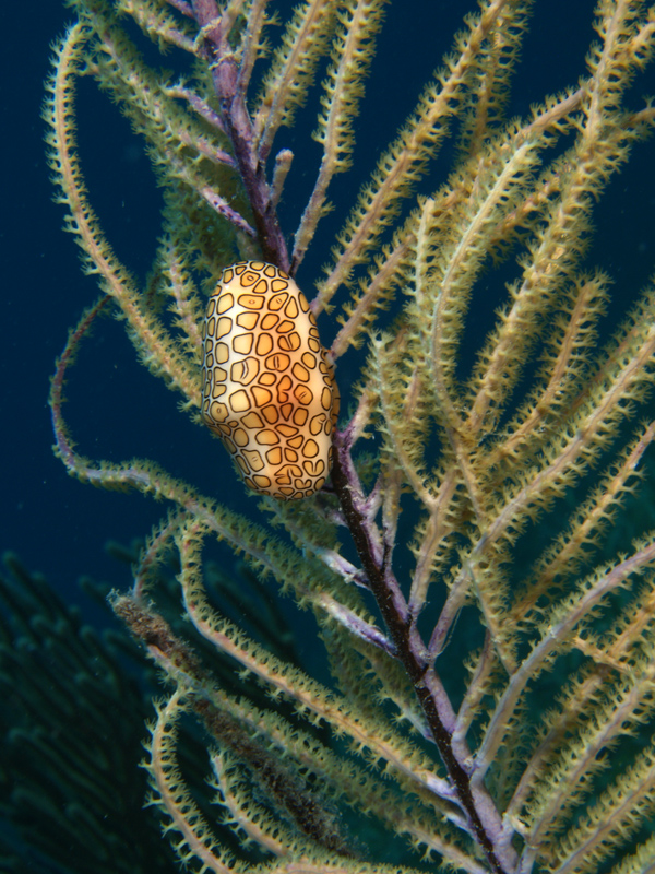 Cyphoma gibbosum (Flamingo tongue)